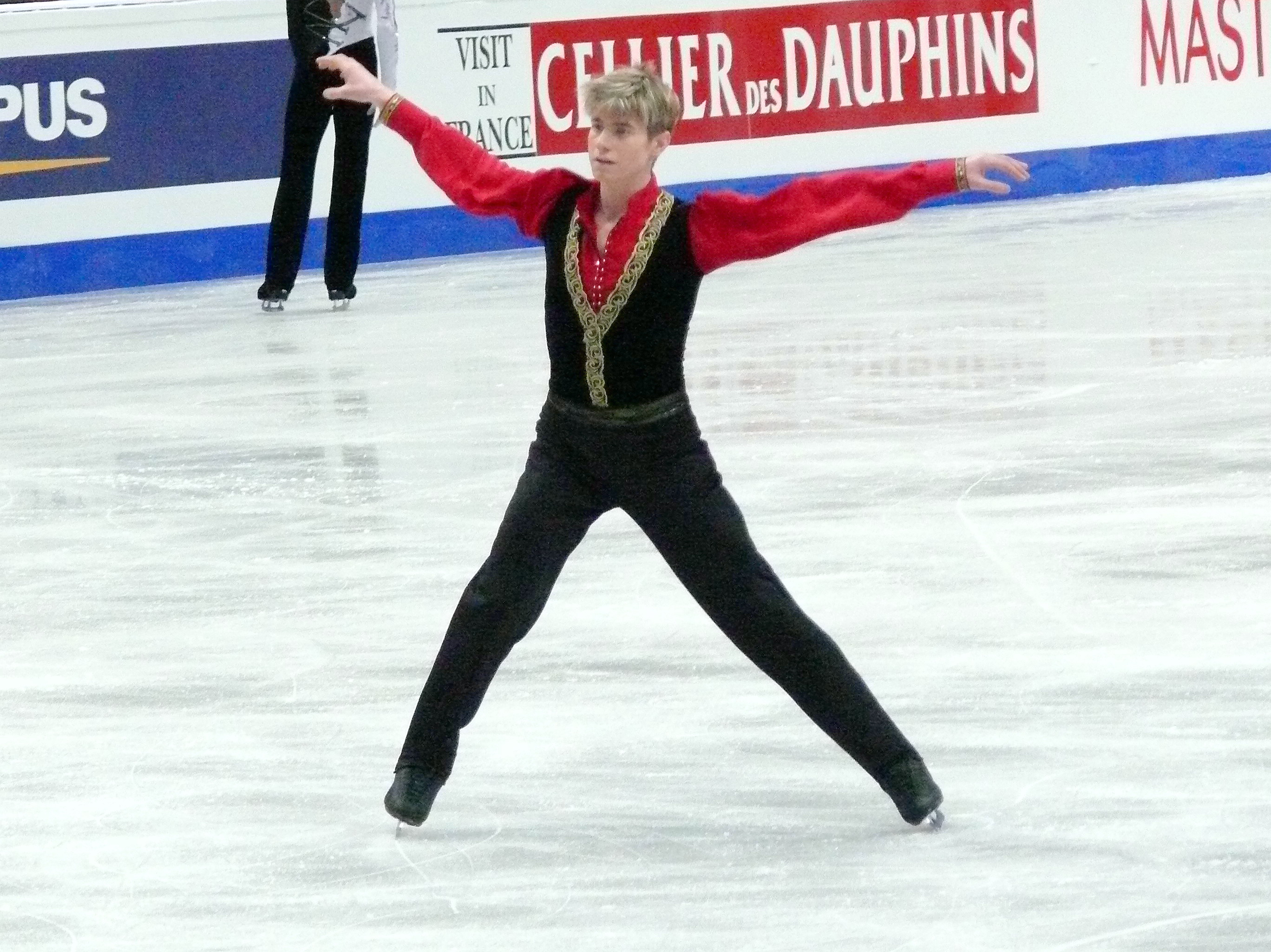 Jeffrey Buttle (CAN) at the Warm-up for his free program at the World Championships in Figure Skating 2008 in Göteborg (SWE)